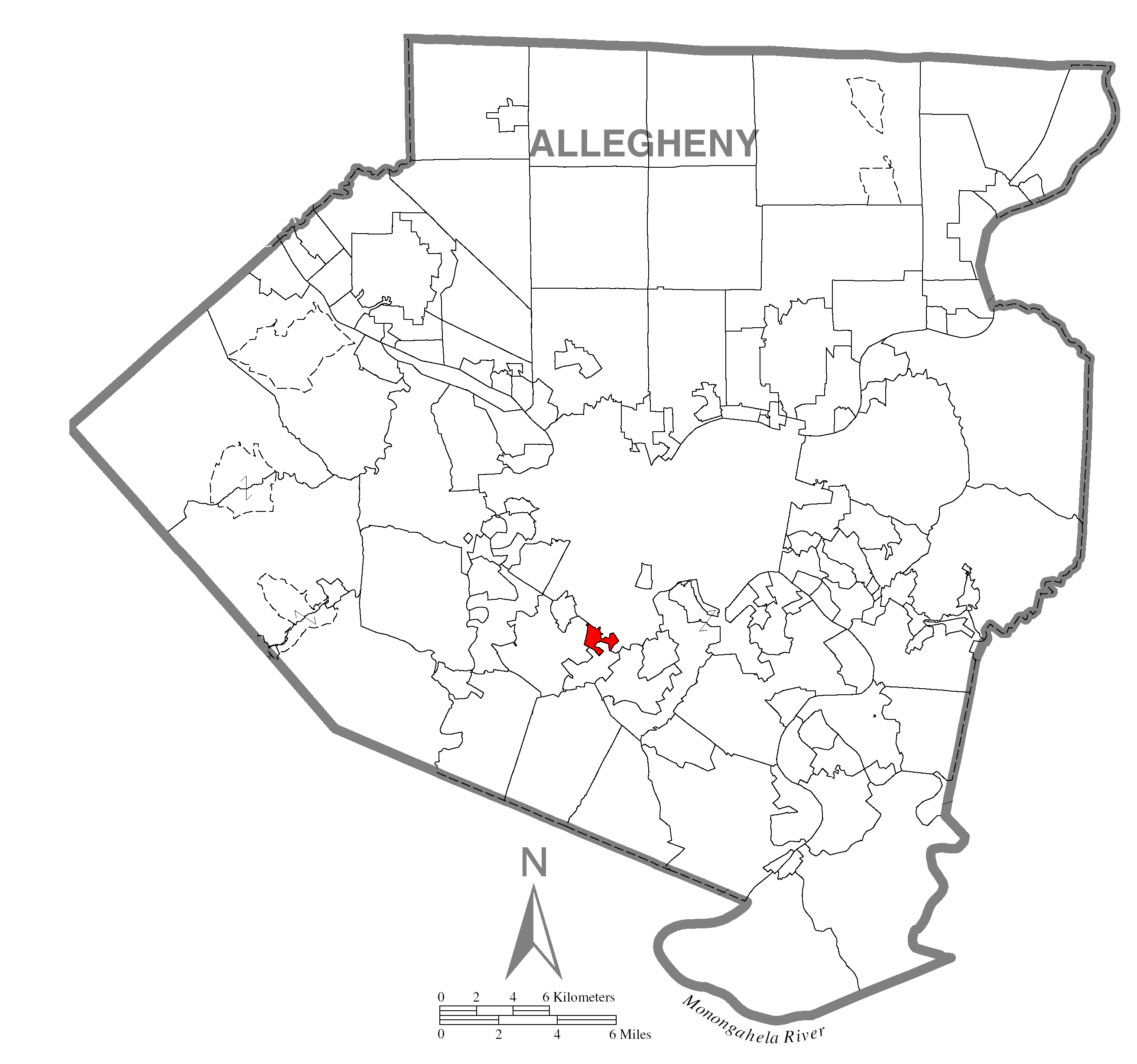 A map of Allegheny County showing Baldwin Township, Pennsylvania (alternate) highlighted on the map.